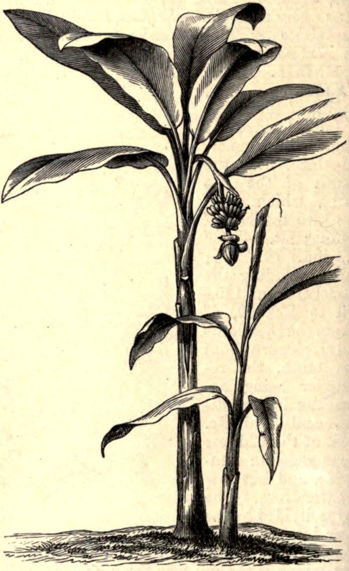 Botanical illustration of Manila hemp (Musa textilis).